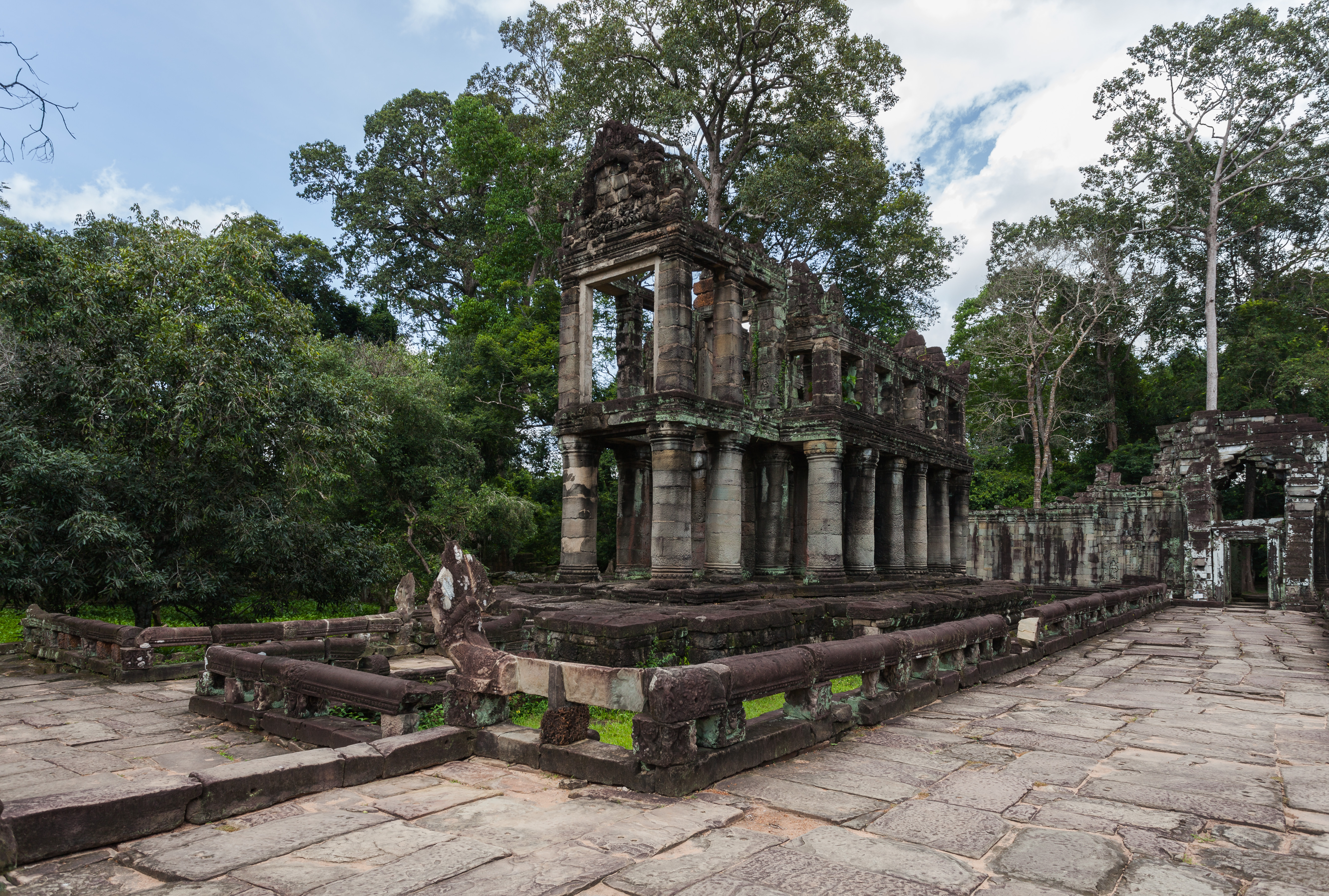 Preah Khan, Angkor, Cambodia